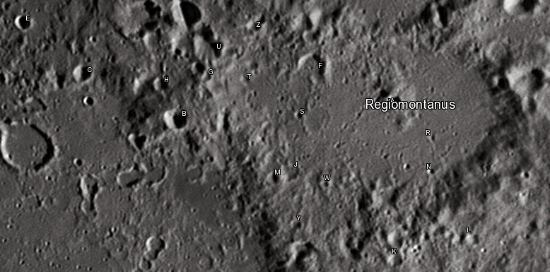 Regiomontanus lunar crater as seen from Earth with satellite craters labeled